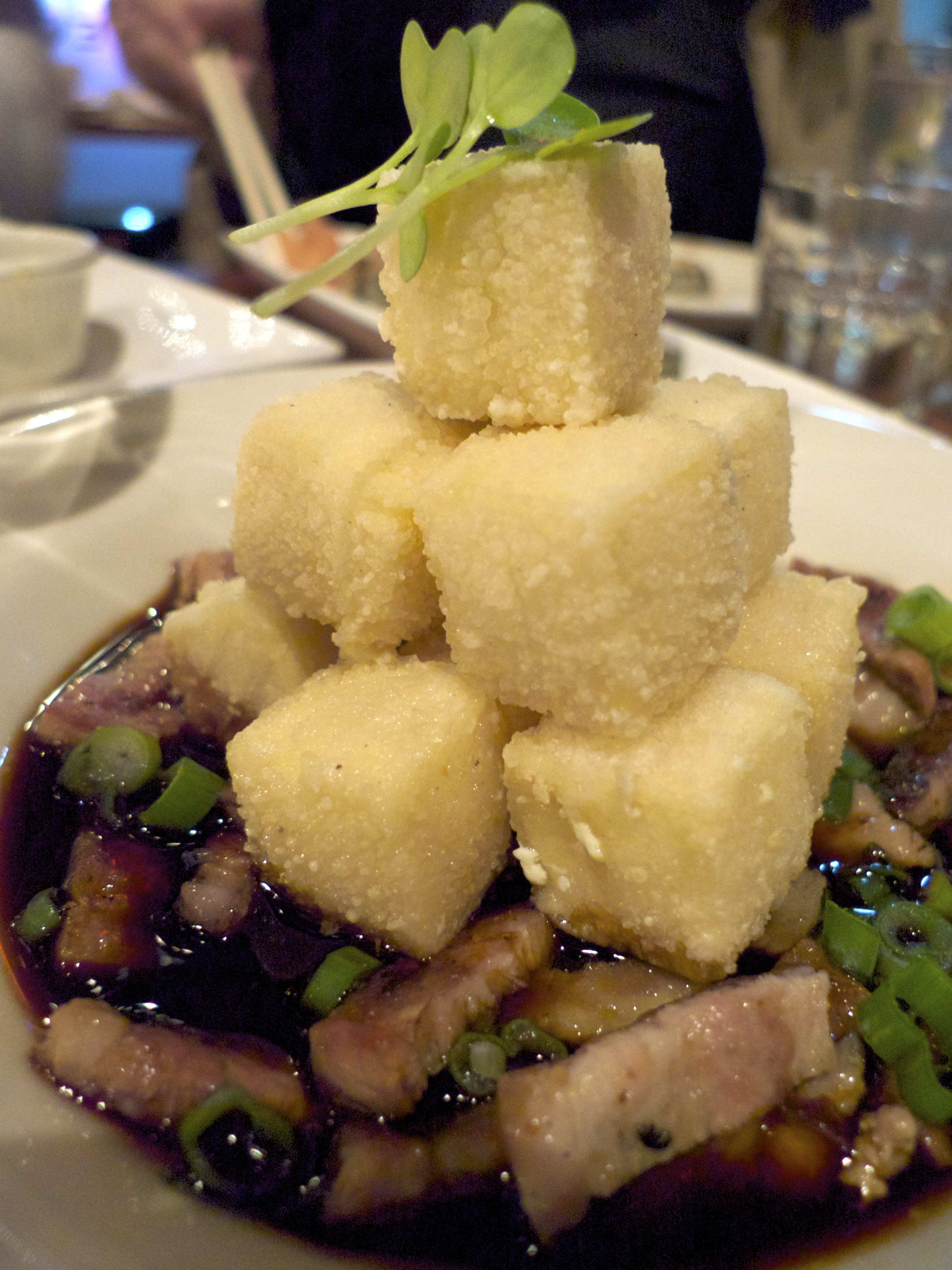 Crusted soft tofu and grilled pork in soy-vinegar sauce.